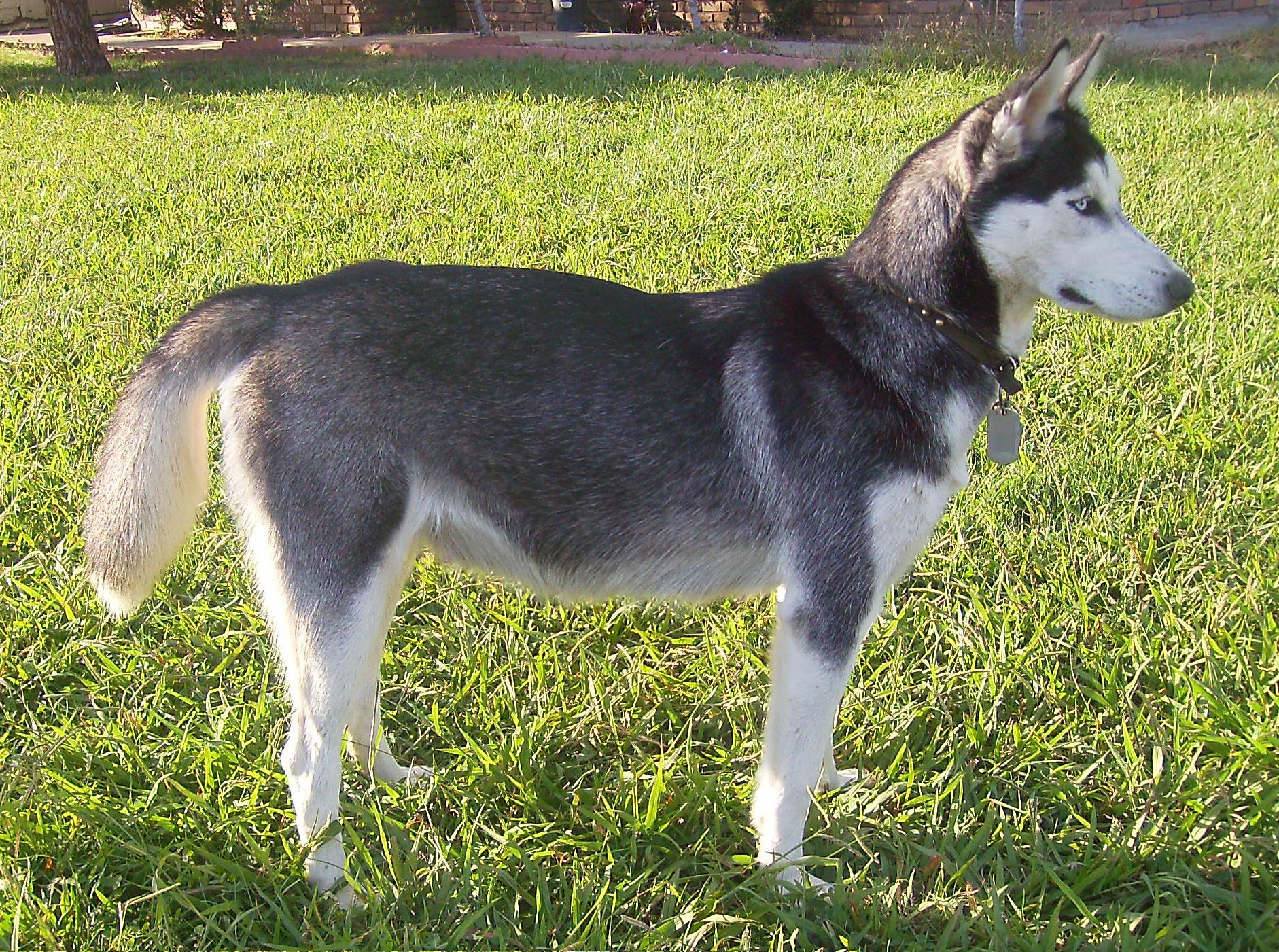 A Pregnant Alaskan Husky